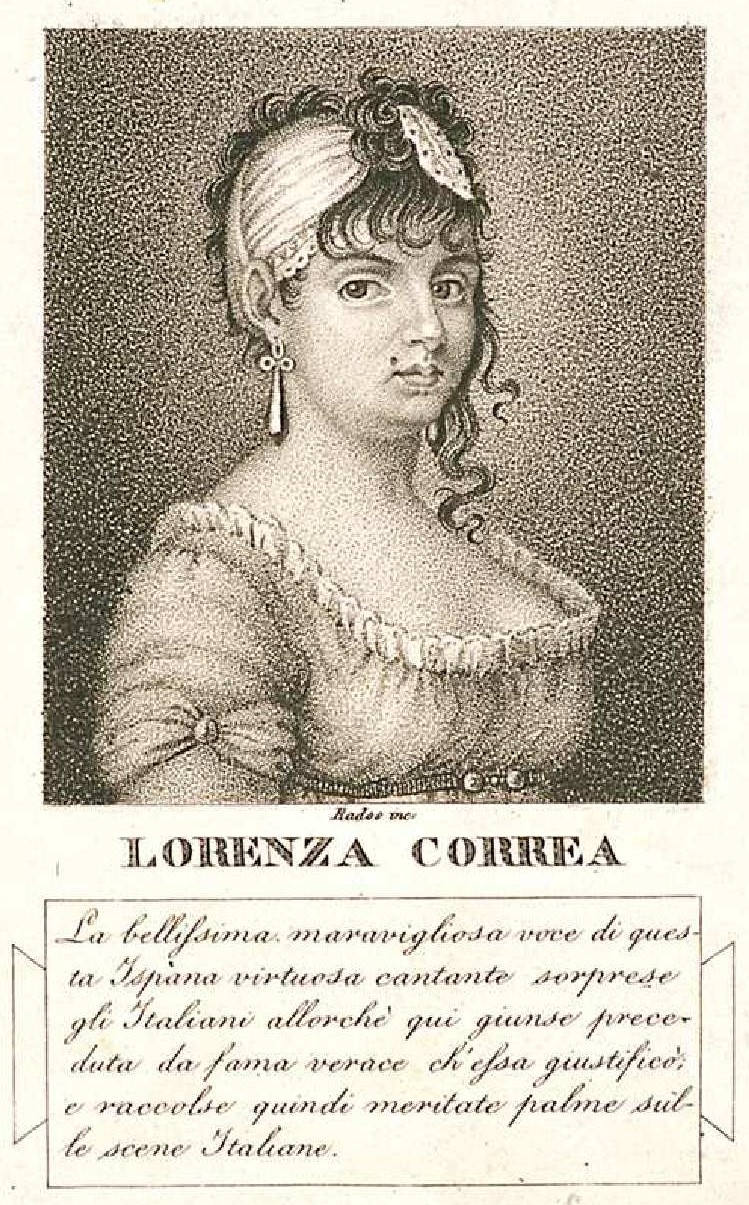 Engraved portrait of soprano Lorenza Correa (born 1775 ? died circa 1832).